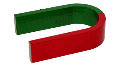 Imán de forma de ferradura.